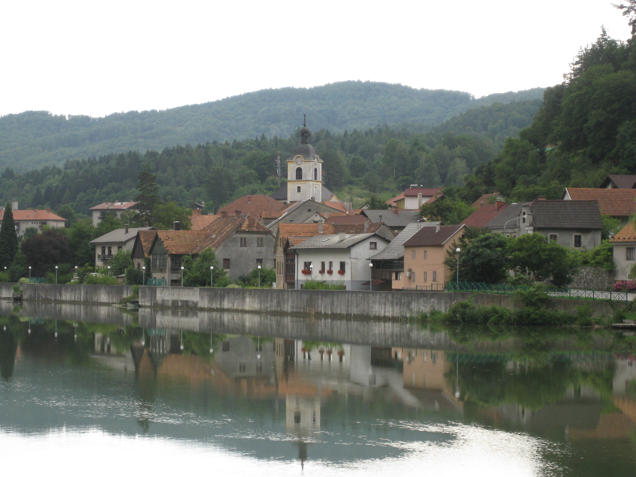 Radeče, town in Slovenia